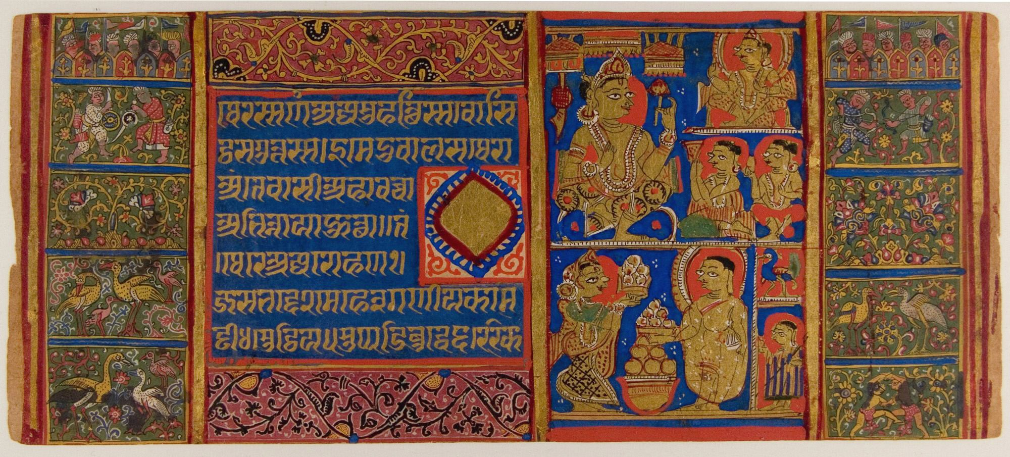 3 Master of the Devasano Pado. A Monk is Greeted at the Gate of the Coronation Hall Folio from a Kalpasutra Manuscript. ca. 1475. Museum Rietberg, Zurich